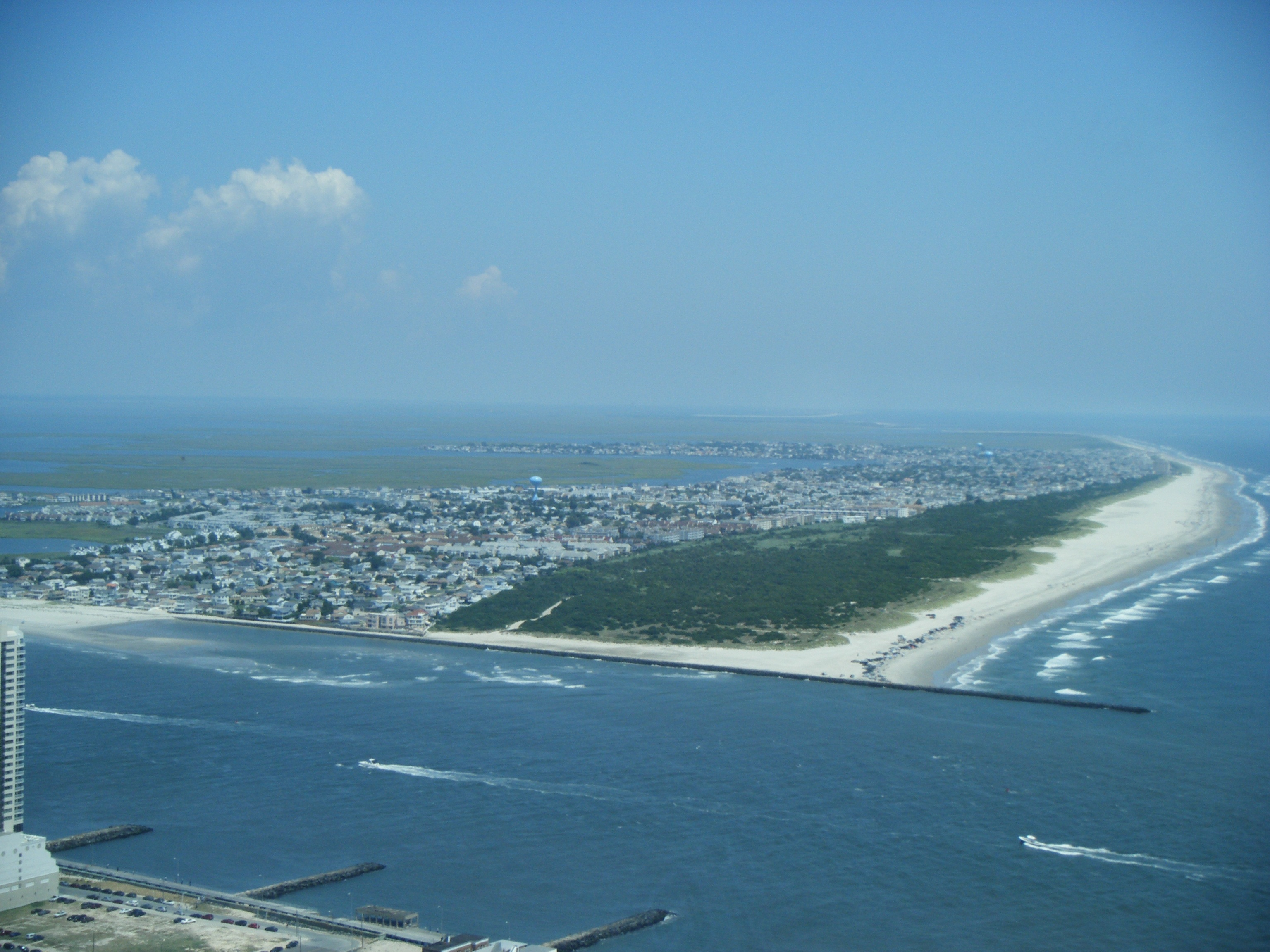 A view of Brigantine, New Jersey from the 47th floor of Revel Atlantic City